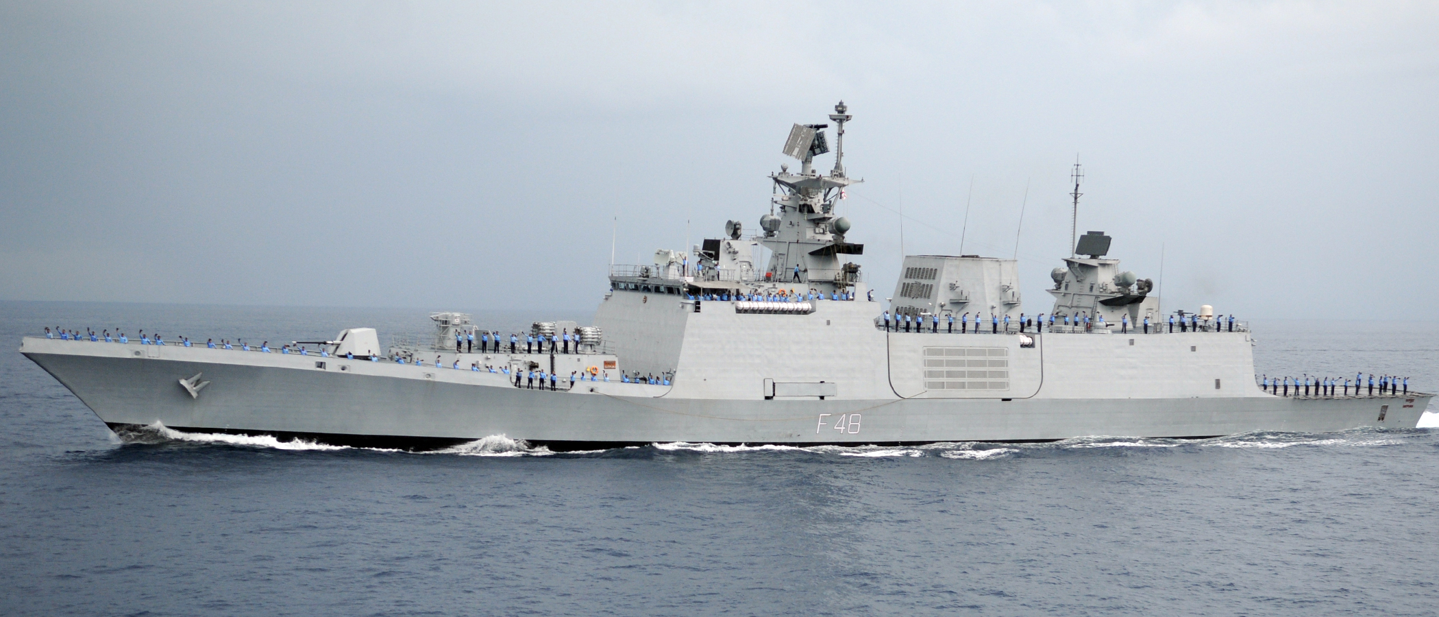 Indian Navy Ship Satpura (F-48) transits the Indian Ocean during an exercise for Malabar 2012. Satpura is participating in Malabar, a regularly scheduled naval field training exercise conducted to advance multinational maritime relationships and mutual security issues.